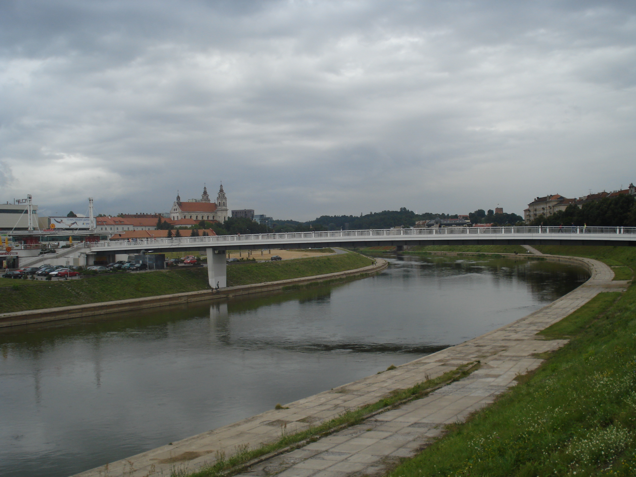 White Bridge in Vilnius